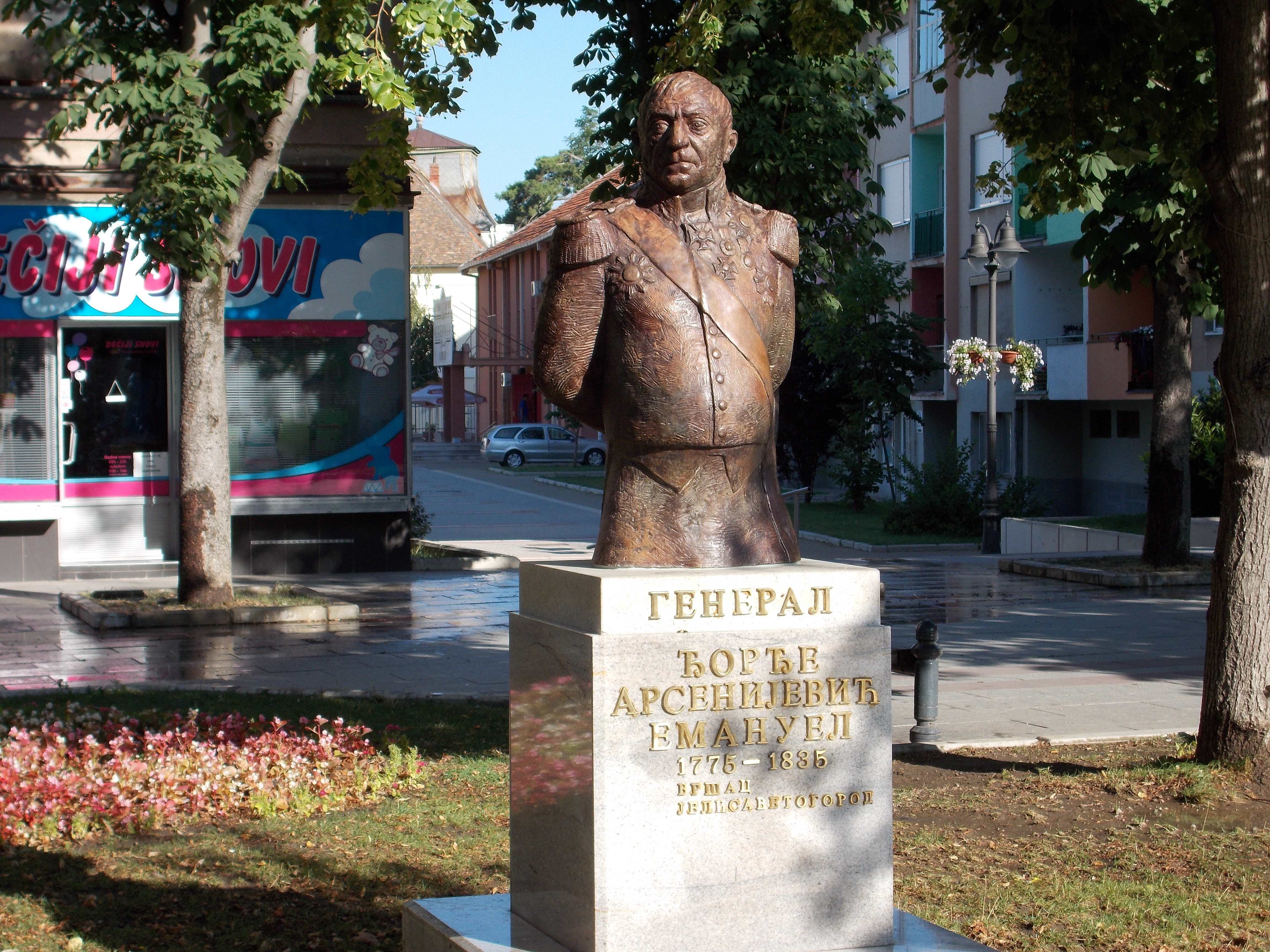 Monument to George (Egorii) Arsenievich Emmanuel (1775-1837), General of the Russian Army, conqueror of Caucasus. He was also participated in Battle of Borodino, Battle of the Nations and Battle for Paris in 1814.